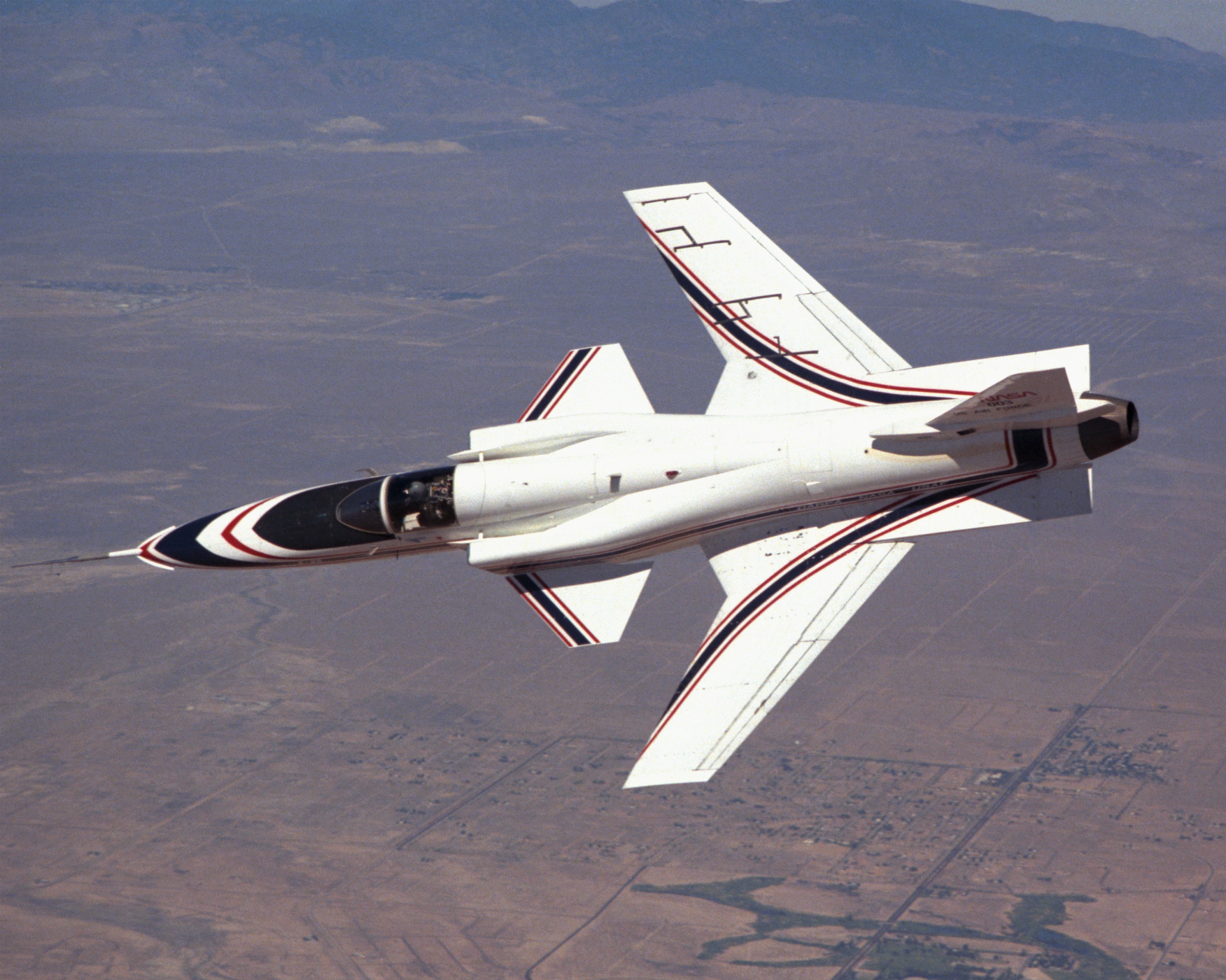 The No. 1 X-29 advanced technology demonstrator aircraft banks over desert terrain near NASA's Ames-Dryden Flight Research Facility (later redesignated the Dryden Flight Research Center), Edwards, California. It was flown in a joint NASA-Air Force-Defense Advanced Research Projects Agency program from December 1984 to 1988 investigating handling qualities, performance, and systems integration on the unique forward-swept-wing research aircraft. Phase 2 of the X-29 program involved aircraft No. 2 and studied the high-angle-of-attack characteristics and military utility of the X-29.